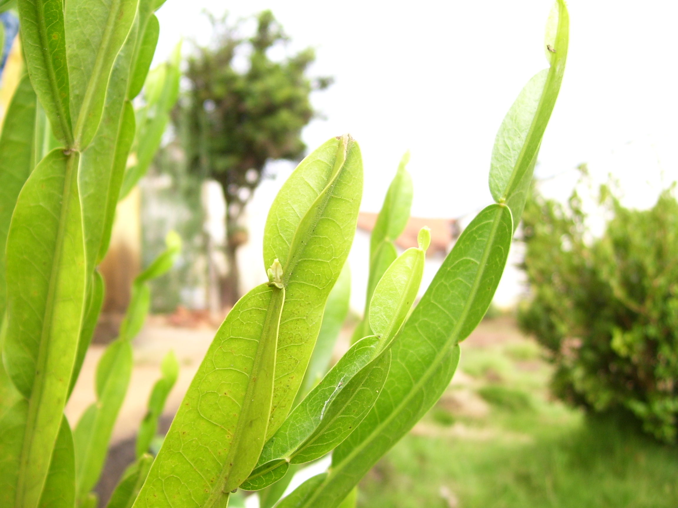 Baccharis trimera (Less) DC.